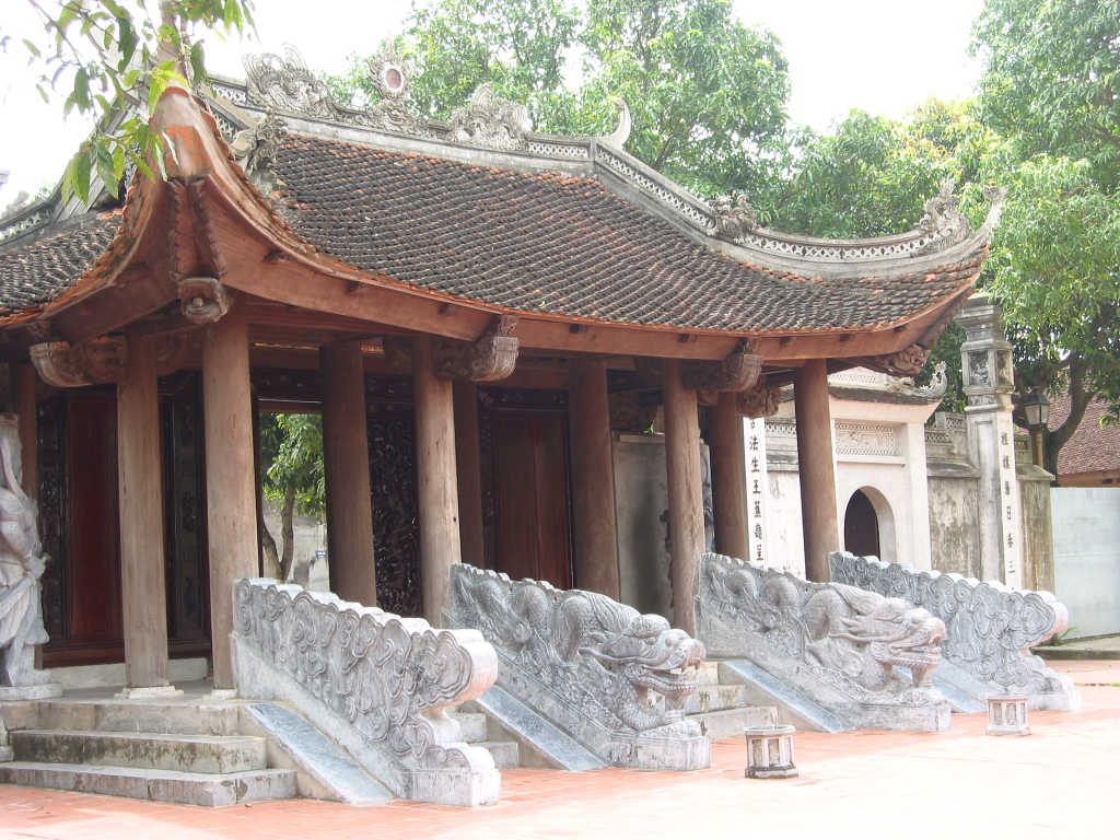 A close-up of the Ngũ Long Môn in the Ly Bat De Shrine